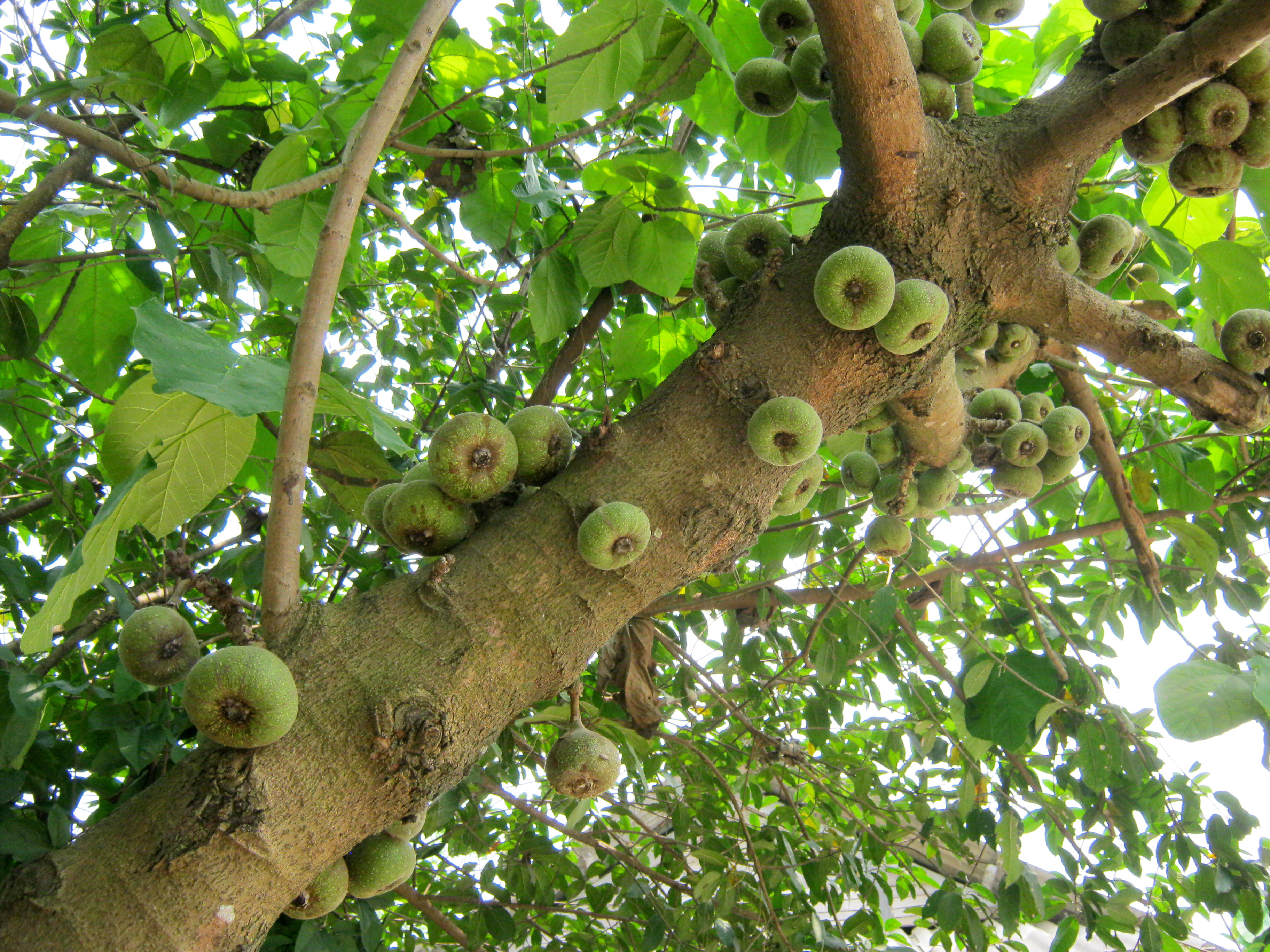 Friuts of Ficus auriculata